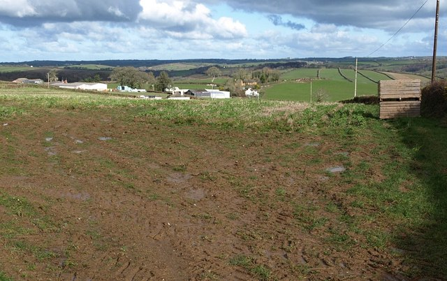 Trebeath. The hamlet seen from the junction of the lane that leads to it with 722232.